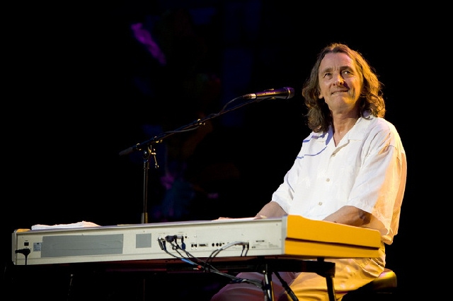 Roger Hogdson France 2008 By Marc Lacaze